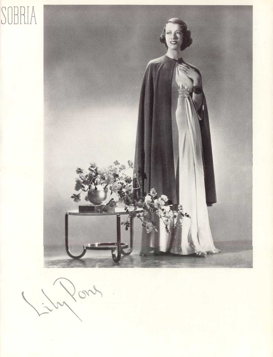 Publicity photo of Lily Pons for Argentinean Magazine. (Printed in USA)